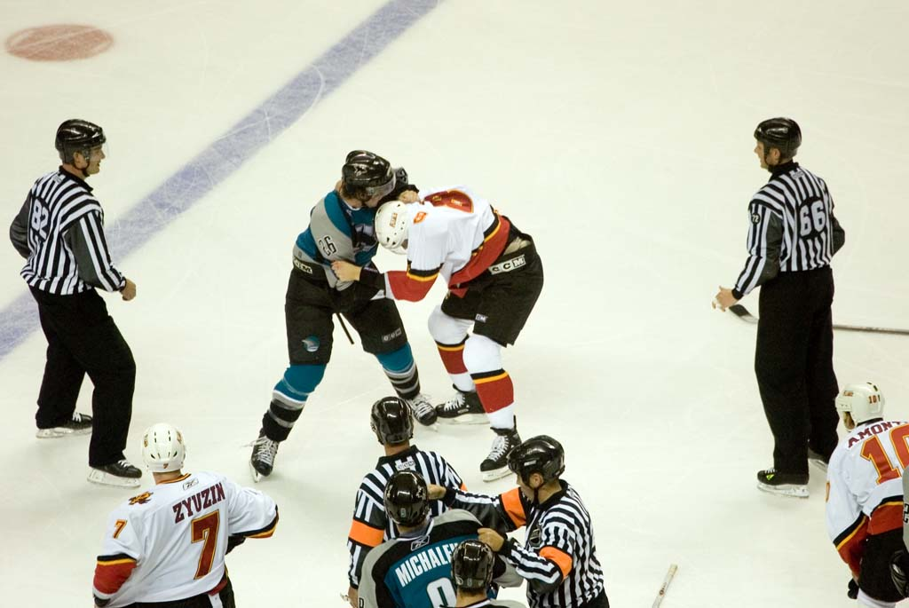 Ice hockey fight Steve Bernier vs. Brad Ference, Calgary Flames vs. San Jose Sharks